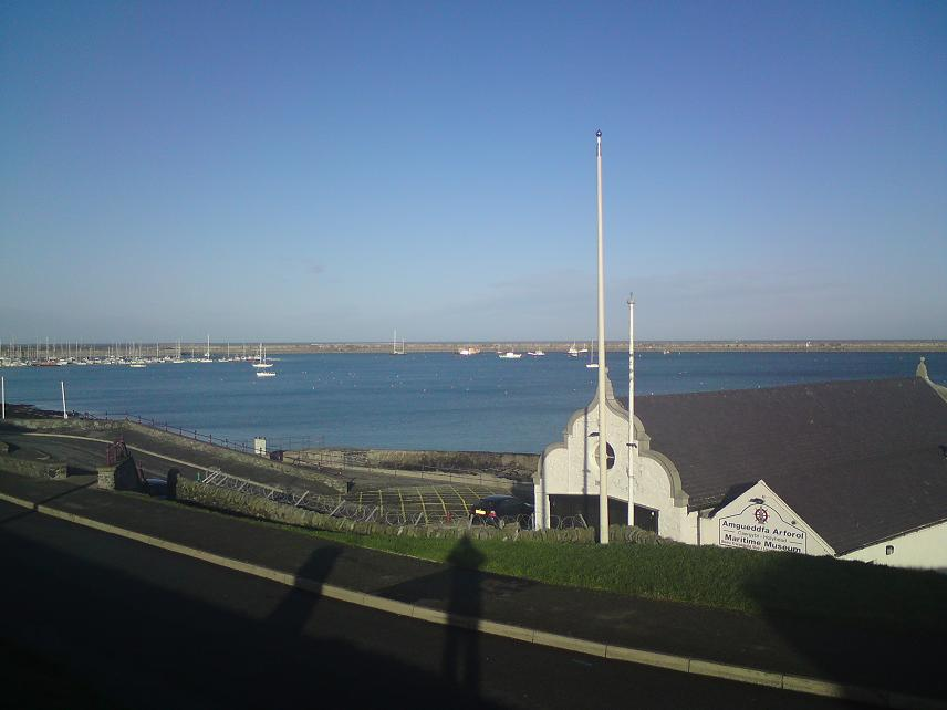 Lifeboat museum by the harbour in Holyhead, Anglesey